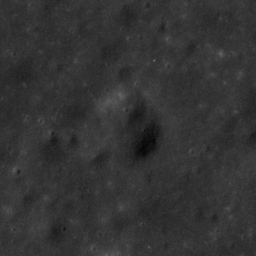 Brontë crater, Taurus–Littrow valley, on the moon. Sun elevation 46 deg., spacecraft altitude 112 km.